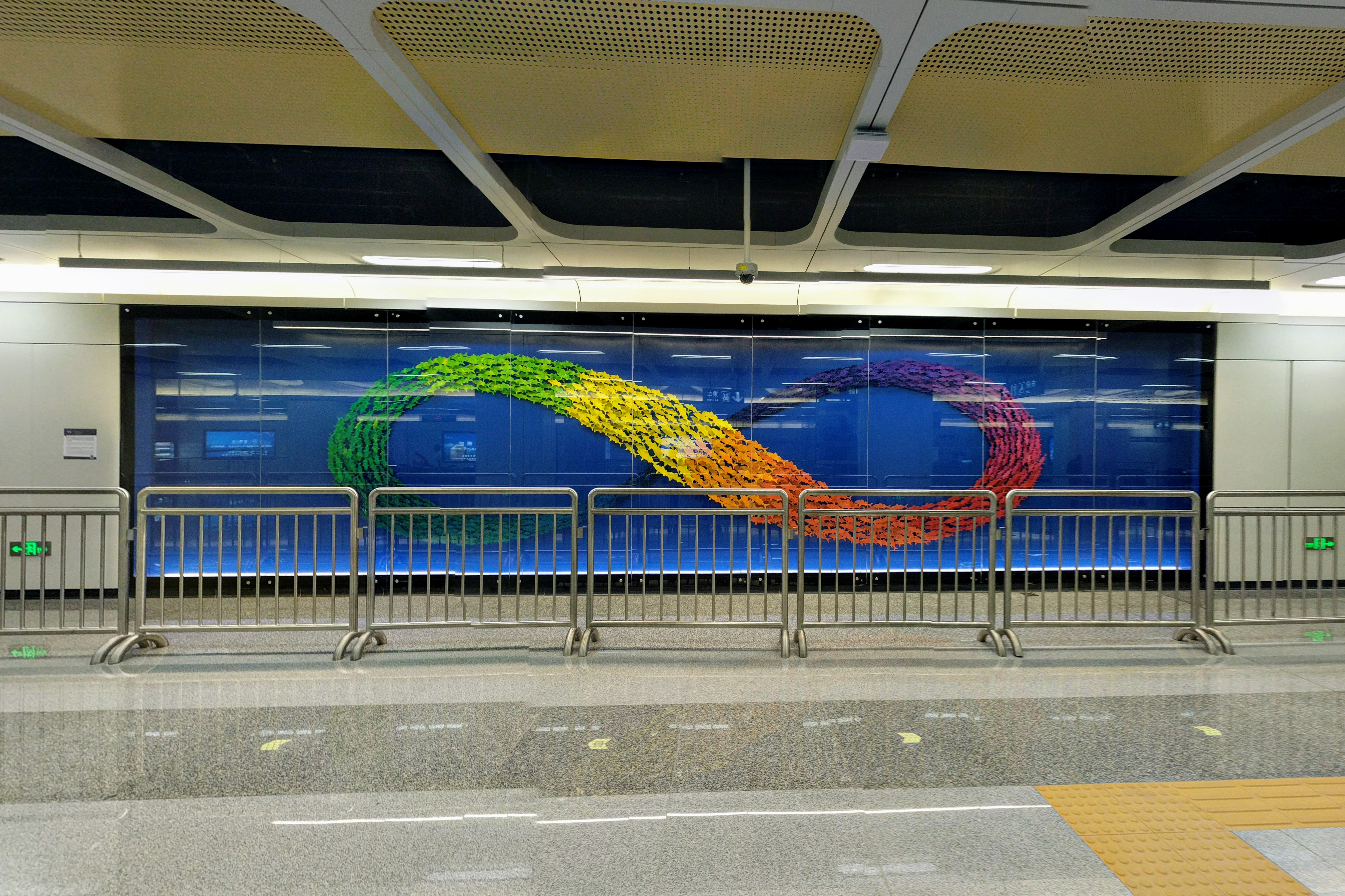 SZMC Line5 Railway Park Station Artwork